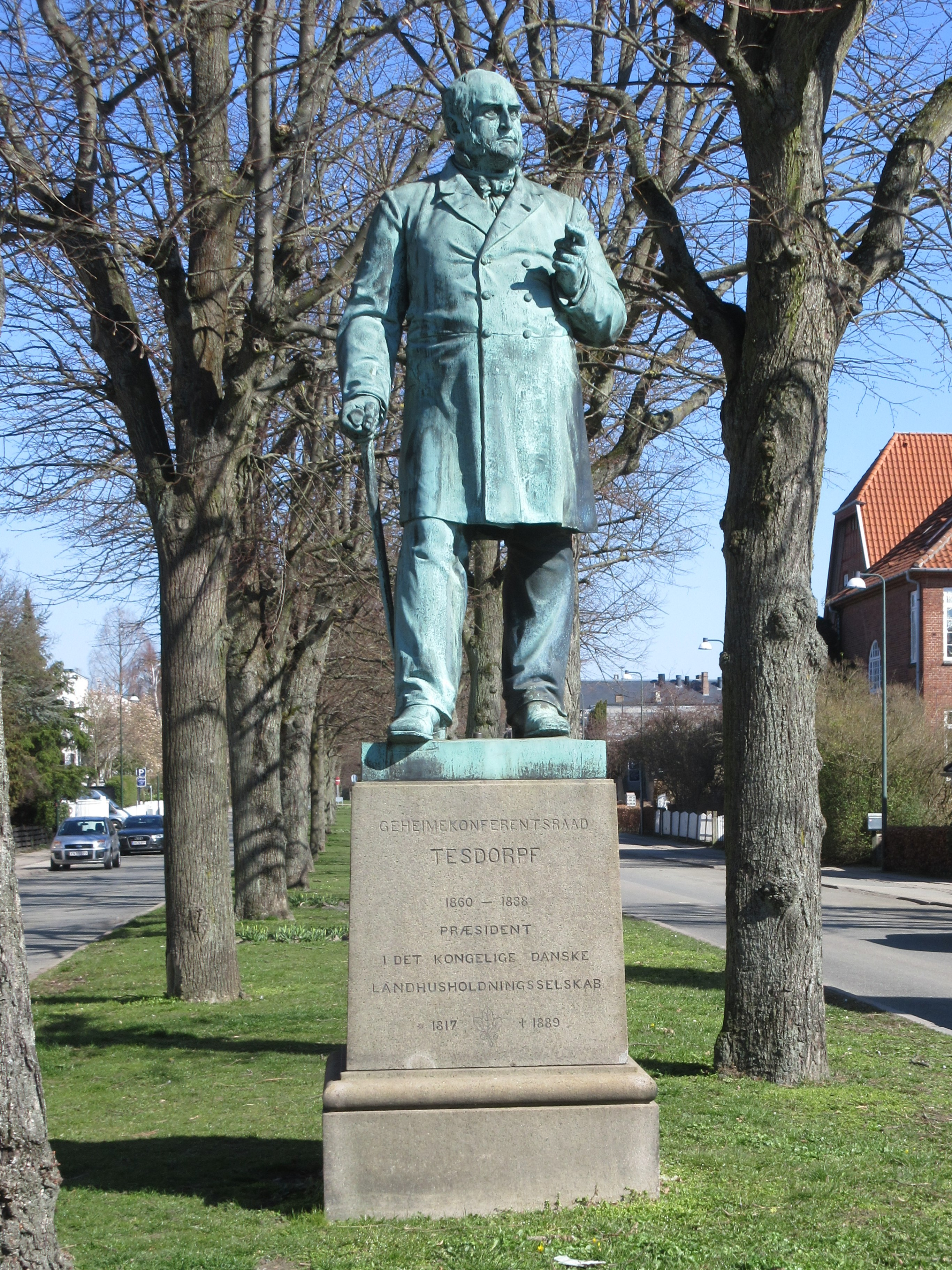 Statue of Edward Tesdorpf in Frederiksberg, Denmark